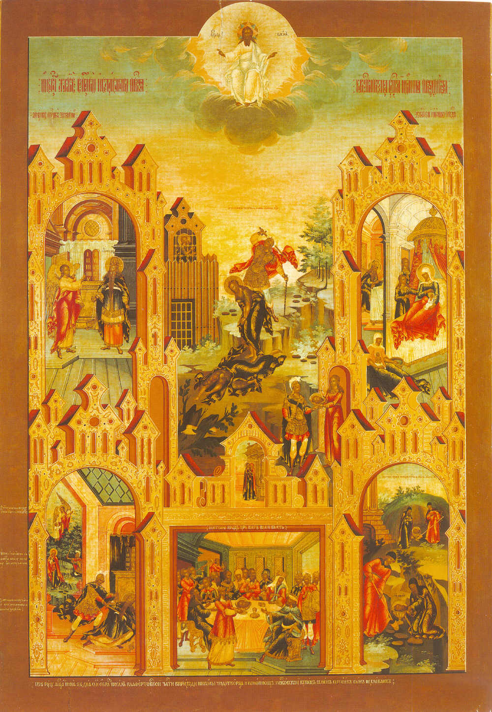 russian icon "Execution of St.John Baptist".